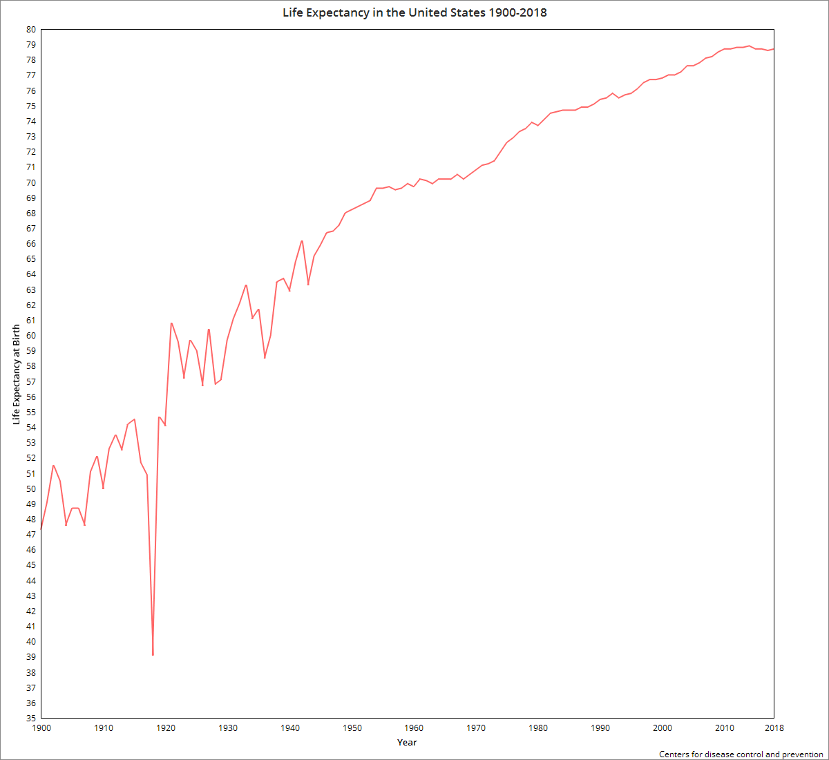 Life Expectancy in the United States 1900-2018